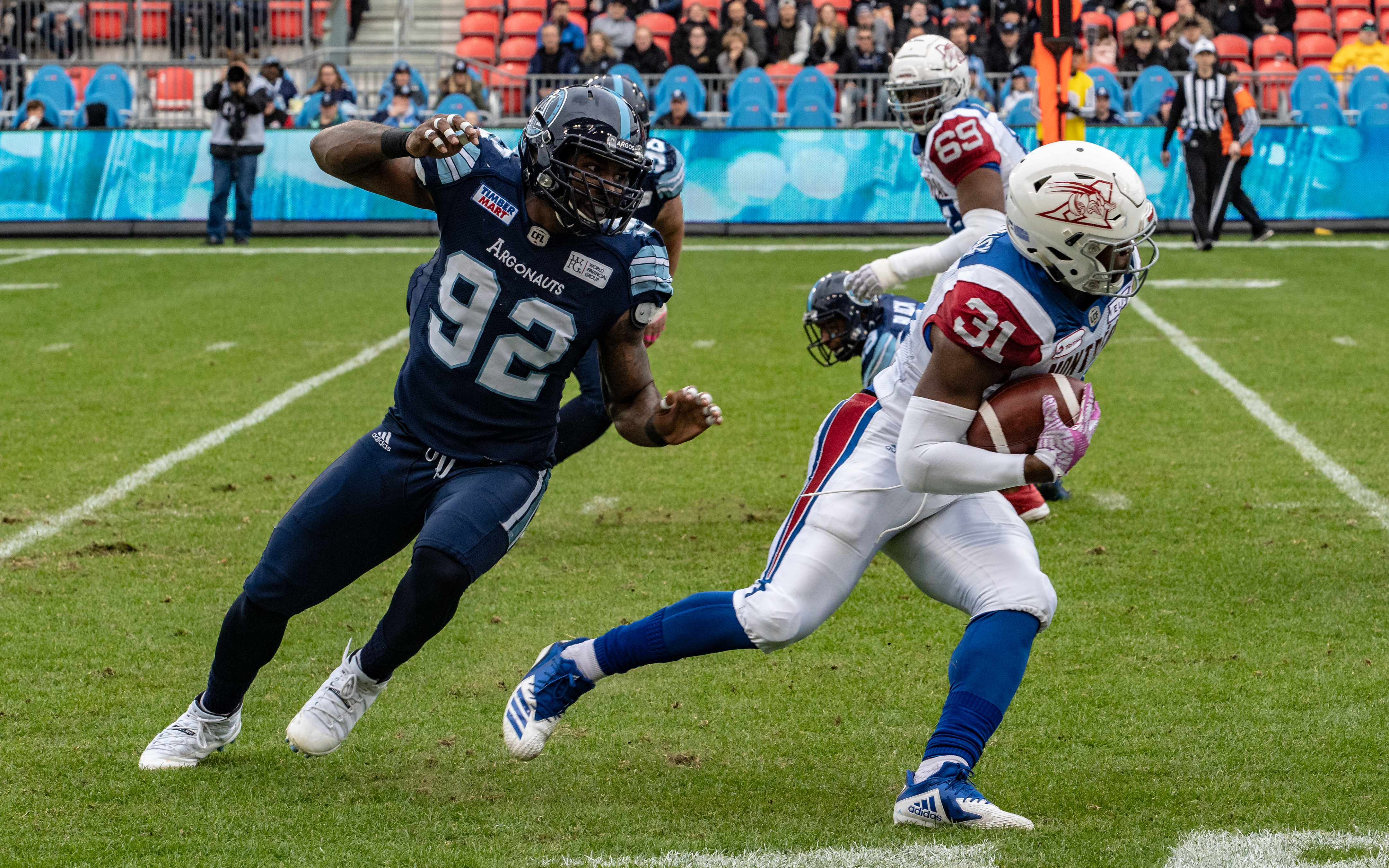 Troy Davis attempts to tackle the ball carrier in 2018 at BMO Field.